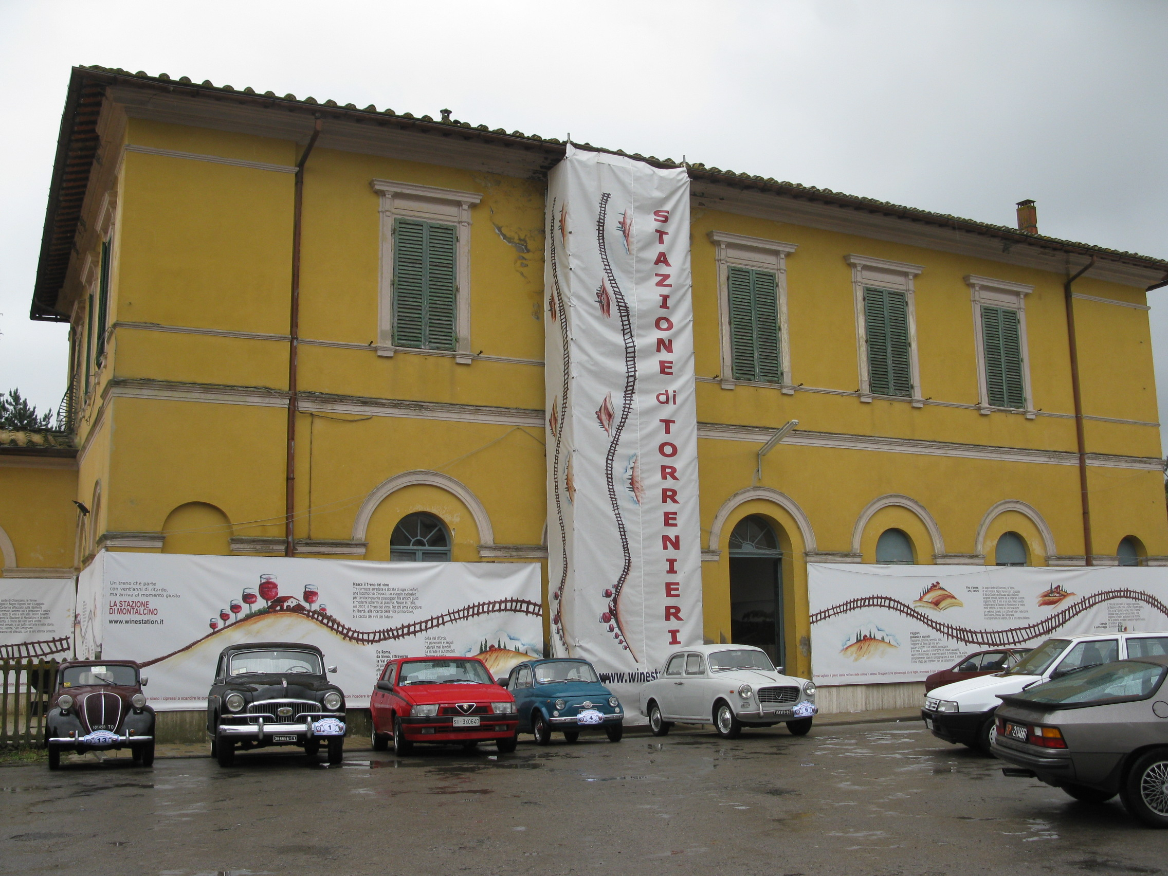 Torrenieri-Montalcino station was closed in 1994 with the closure of the Asciano-Monte Antico line. In 1999 this line has been transformed in a touristic line.